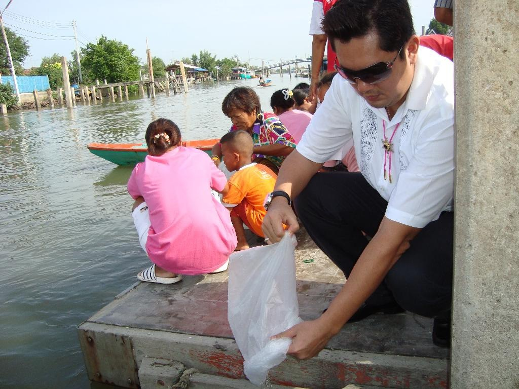 นำพันธ์กุ้งปล่อยแม่น้ำเพื่อขยายพันธ์